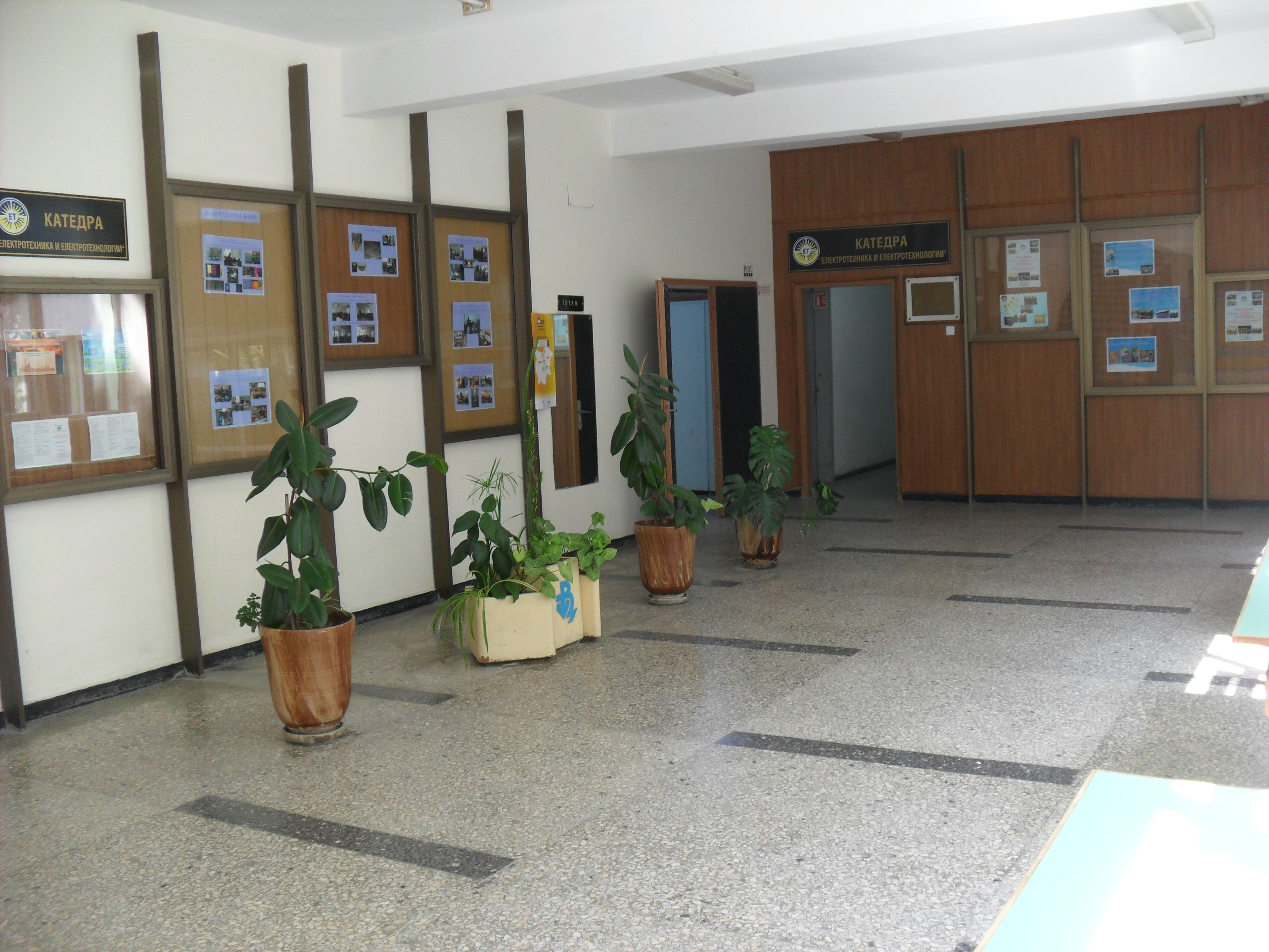 Entry to Department of Electrical Engineering and Technologies